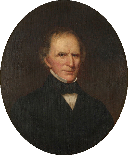 Portrait of William H. Cabell by Flavius Josephus Fisher, mid-19th century, Library of Virginia, State Artwork Collection